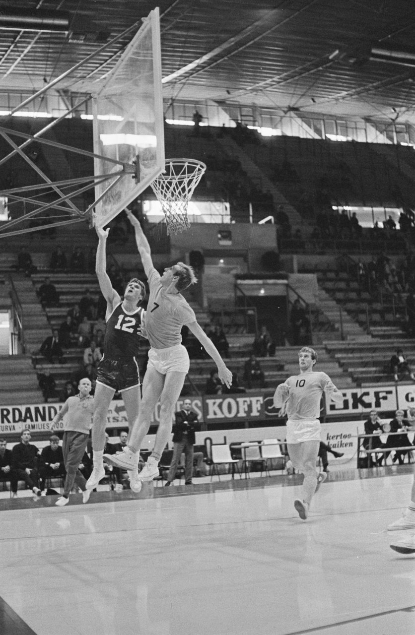 European basketball championship 1968 in Helsinki, Belgium vs the Netherlands